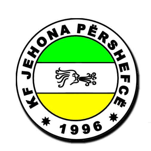 Логото на фудбалскиот клуб „Јехона“ на село Пршовце, тетовско